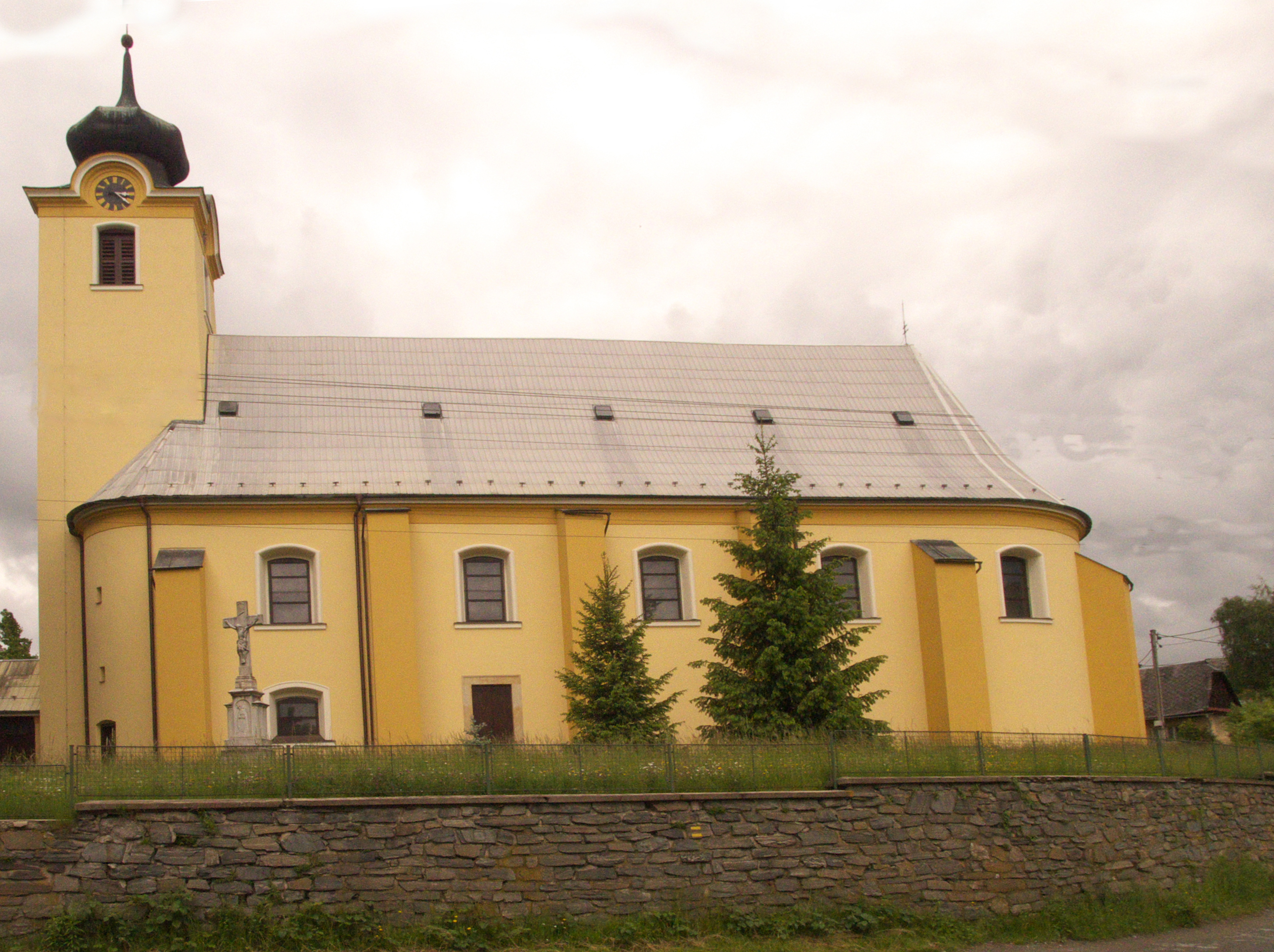 Ruda nad Moravou, Šumperk District, Czechia. Church of Saint Lawrence.